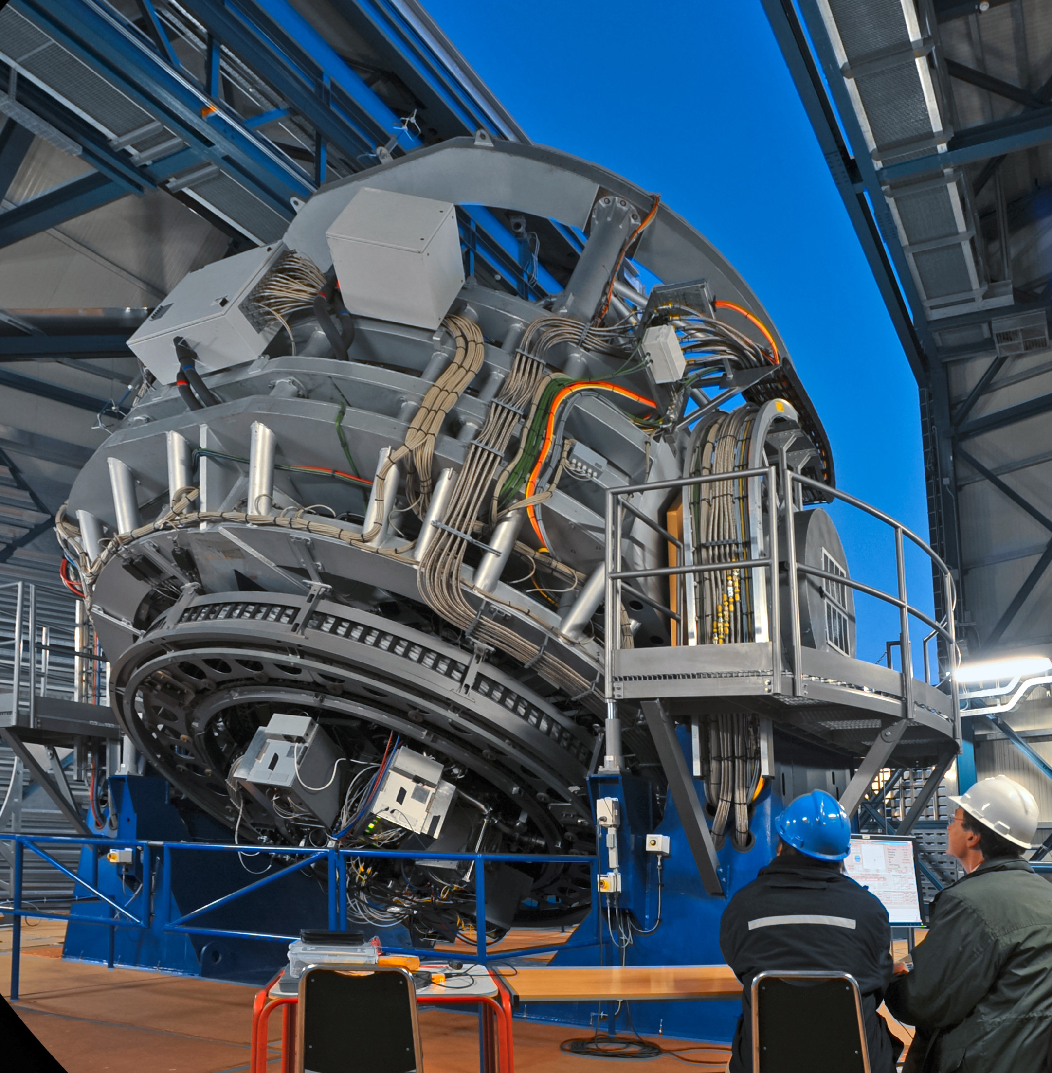 croped and perspectiv corrected version of Awakening for Observations by ESO/S. Brunier.